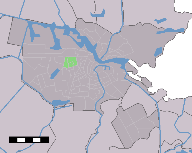 Location of neighbourhoods/districts in Amsterdam